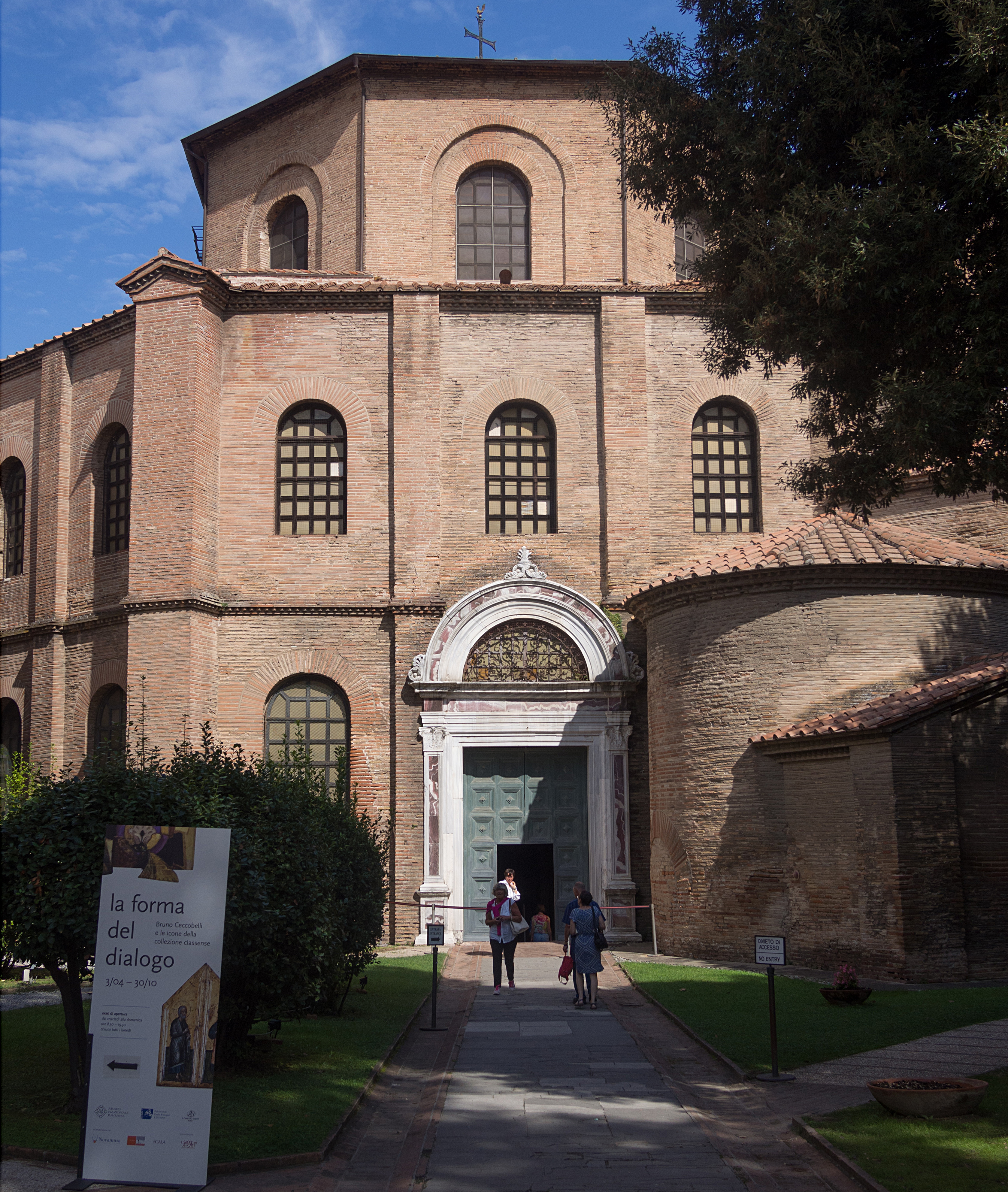 Ravenna - Basilica of San Vitale - entrance